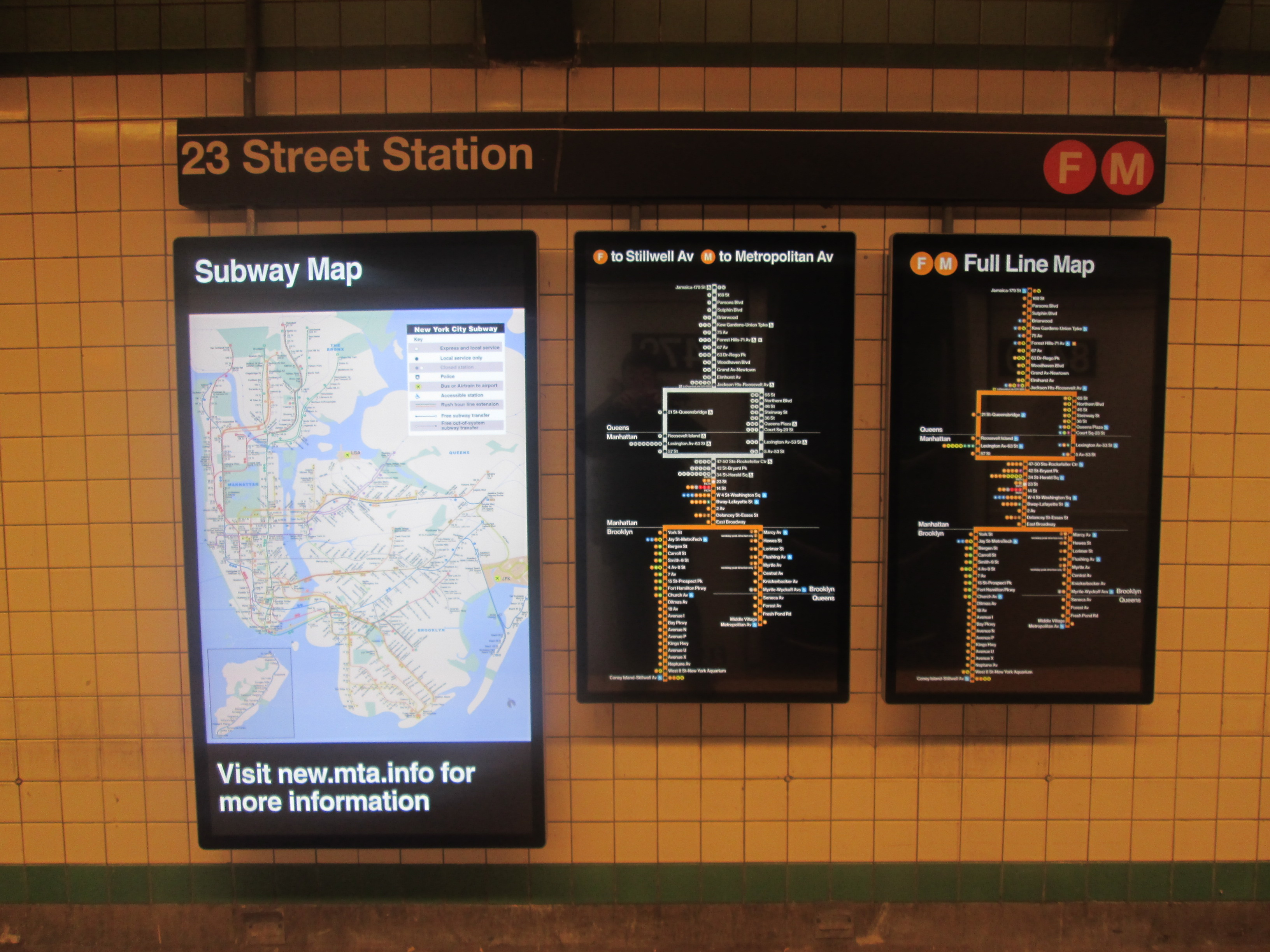 The 23rd Street/Sixth Avenue station in New York City after Enhanced Station Initiative renovations, seen in December 2018